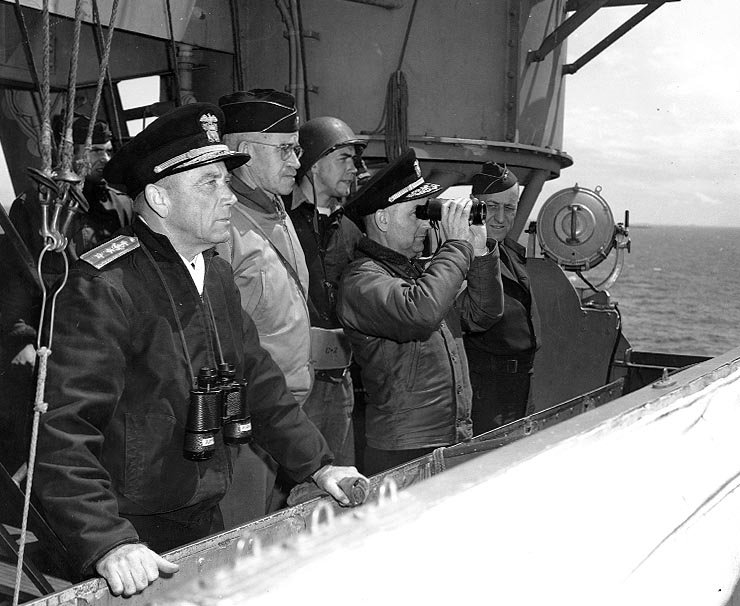 Senior military officials aboard the USS Augusta observing the Normandy invasion, June 1944. Photo #80-G-252940 retrieved online from the Naval Historical Center - Caption: Senior U.S. officers watching operations from the bridge of USS Augusta (CA-31), off Normandy, 8 June 1944. They are (from left to right): Rear Admiral Alan G. Kirk, USN, Commander Western Naval Task Force; Lieutenant General Omar N. Bradley, U.S. Army, Commanding General, U.S. First Army; Rear Admiral Arthur D. Struble, USN, (with binoculars) Chief of Staff for RAdm. Kirk; and Major General Hugh Keen, U.S. Army. Official U.S. Navy Photograph, now in the collections of the National Archives.